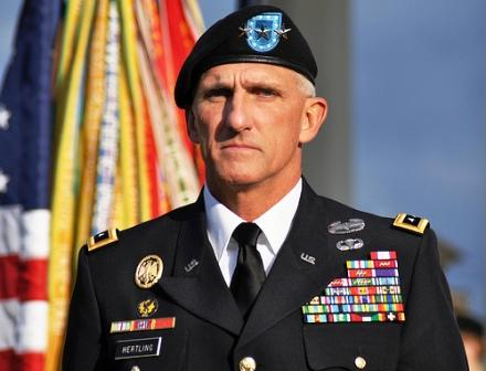 Lt. Gen. Mark Hertling was promoted to and became the Deputy Commanding General for Initial Military Training on Sept. 19.